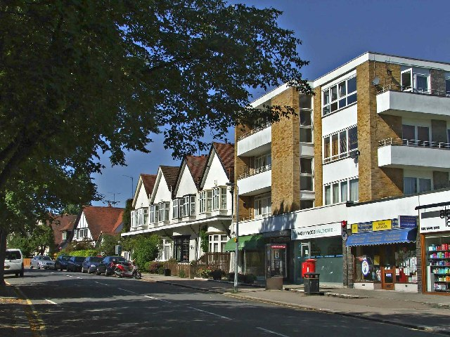 Crescent West, Hadley Wood, Barnet. Shopping and residential area adjacent to Hadley Wood Station.